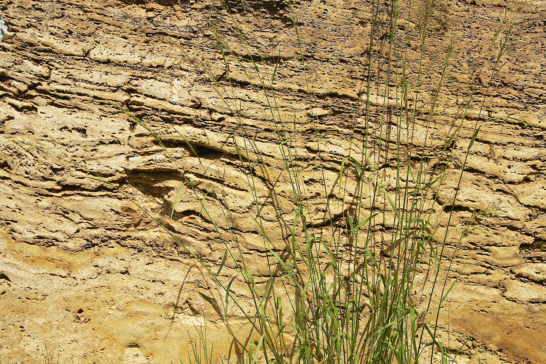 Travertine, sedimented by river Neckar and cut as a block of ca. 1 x 1 x 2 m in the former quarry of “Fa Haas” in Stuttgart-Münster. Exploitation was abolished by 1988. The Travertine was slowly sedimented in interglacial times of the Pliocene: Early and late Riss glaciation (“Hoßkirch Complex”), the Eemian (early Würm glaciation) and warm times of Holocene. The karstwaters emerged from karst springs in Upper- and Middle Muschelkalk. The chemically precipitated Travertine limestone tends to form thin fine layers of sediment. Remarkable are some beddings, coloured kind of brownish, a colour typical for a product of chemical weathering, such as oxidised iron. The Travertine complex tops old fluvial terraces of river Neckar, the peak is 30 m thickness.